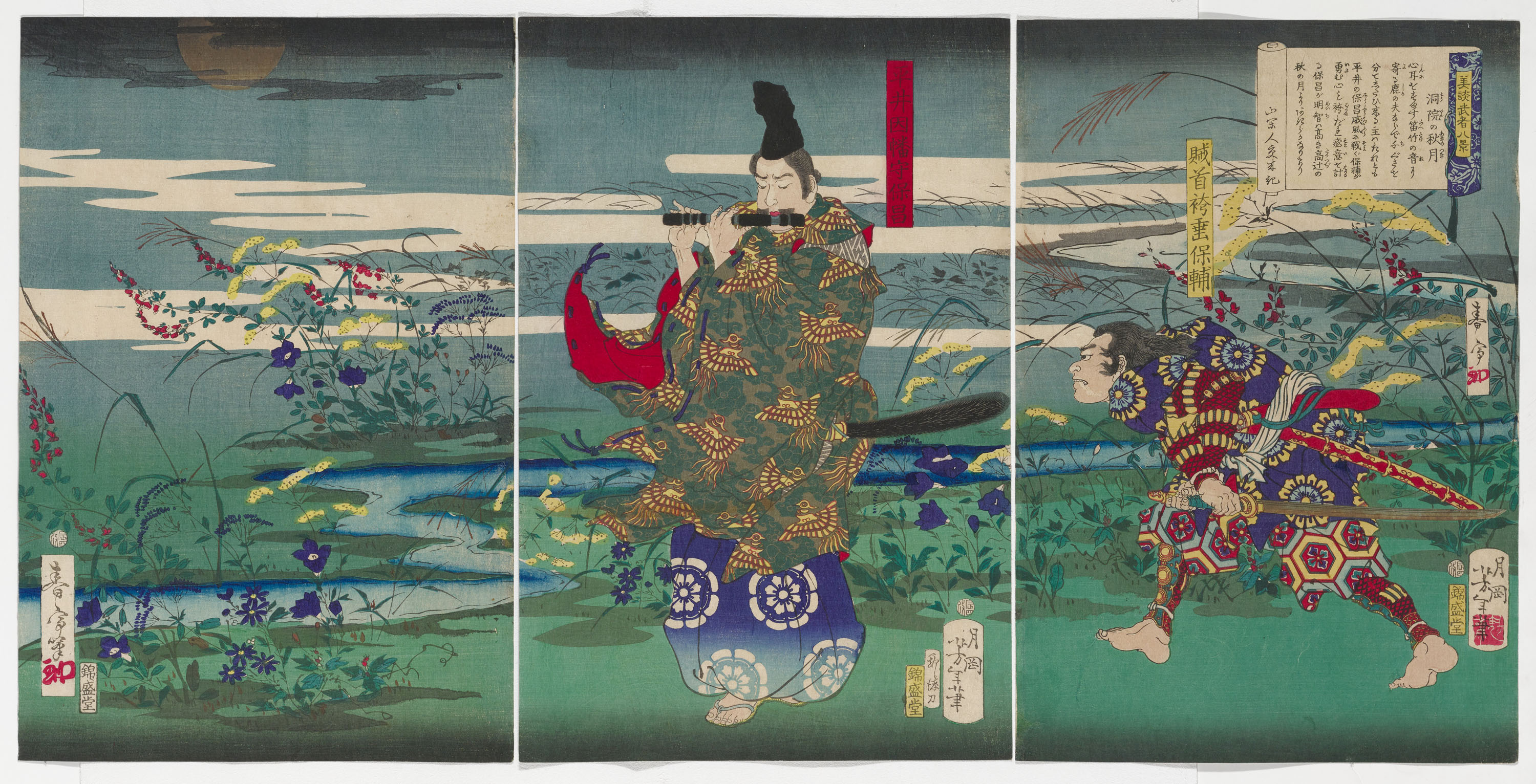 Woodblock print (nishiki-e); ink and color on paper; from Eight Views of Tales of Warriors (Bidan musha hakkei). Mia accession number: 2017.106.85a-c